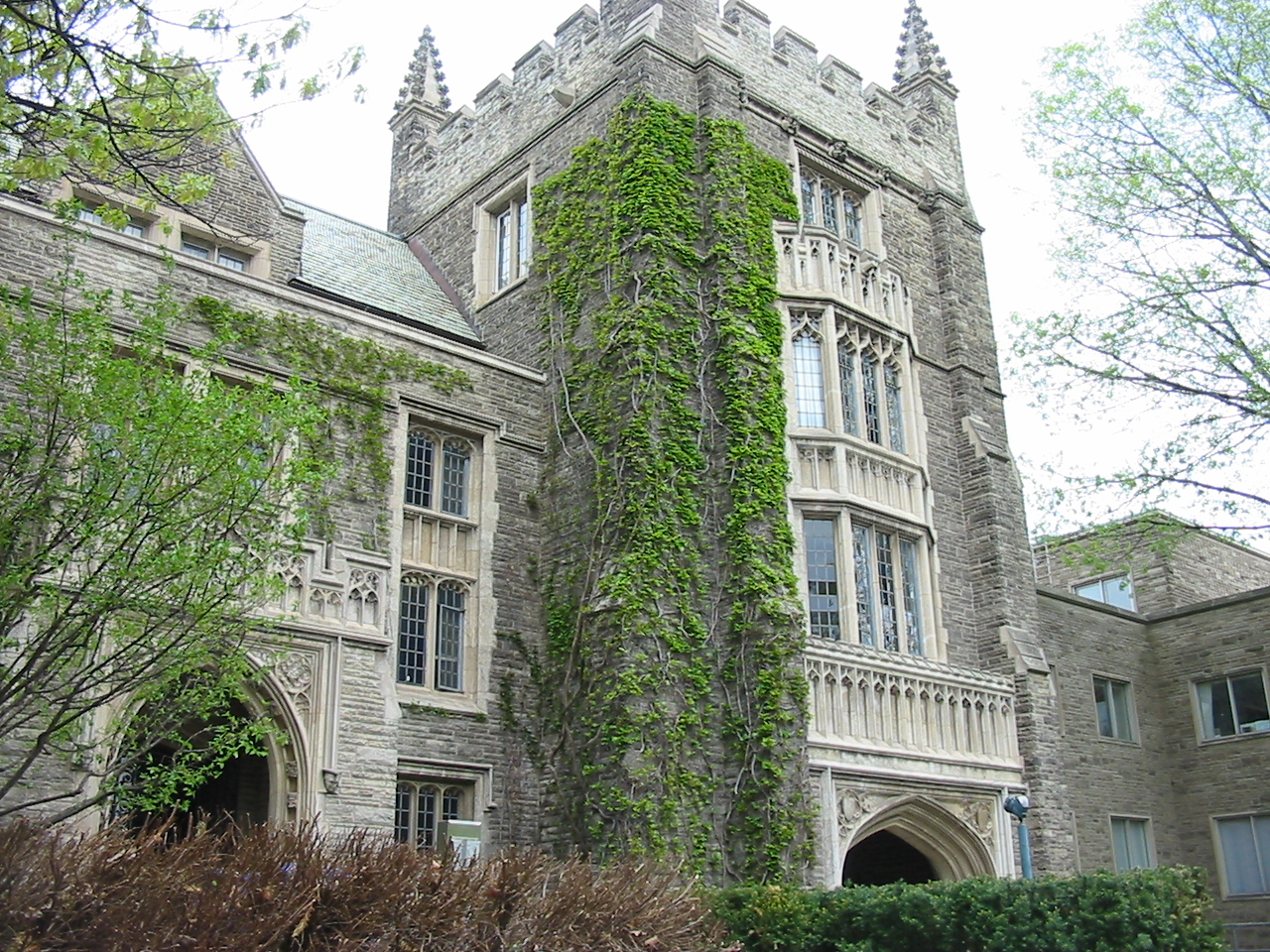 university Hall build in 1930